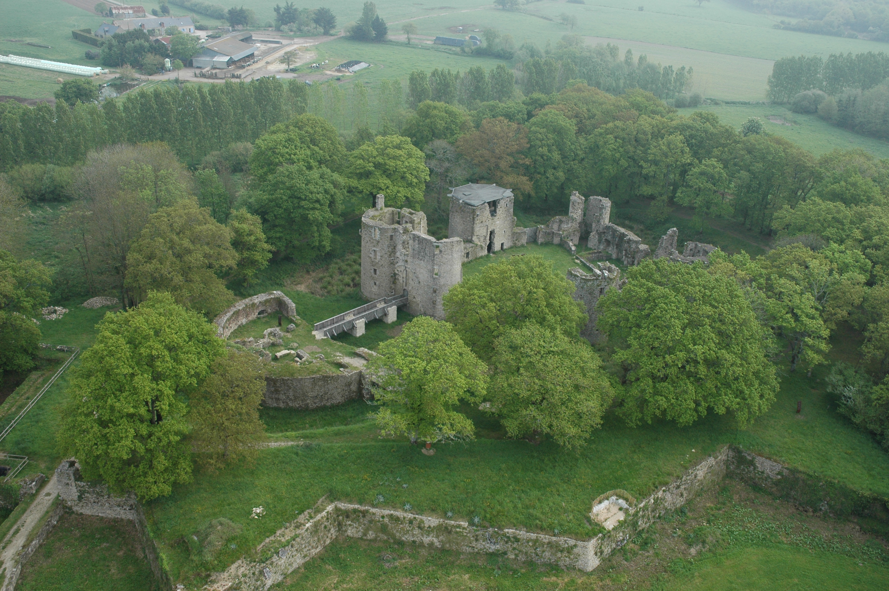 chateau de Ranrouët